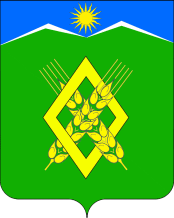 Coat of arms of Jarkovski (Labinski Raion, Krasnodar krai, Russia)